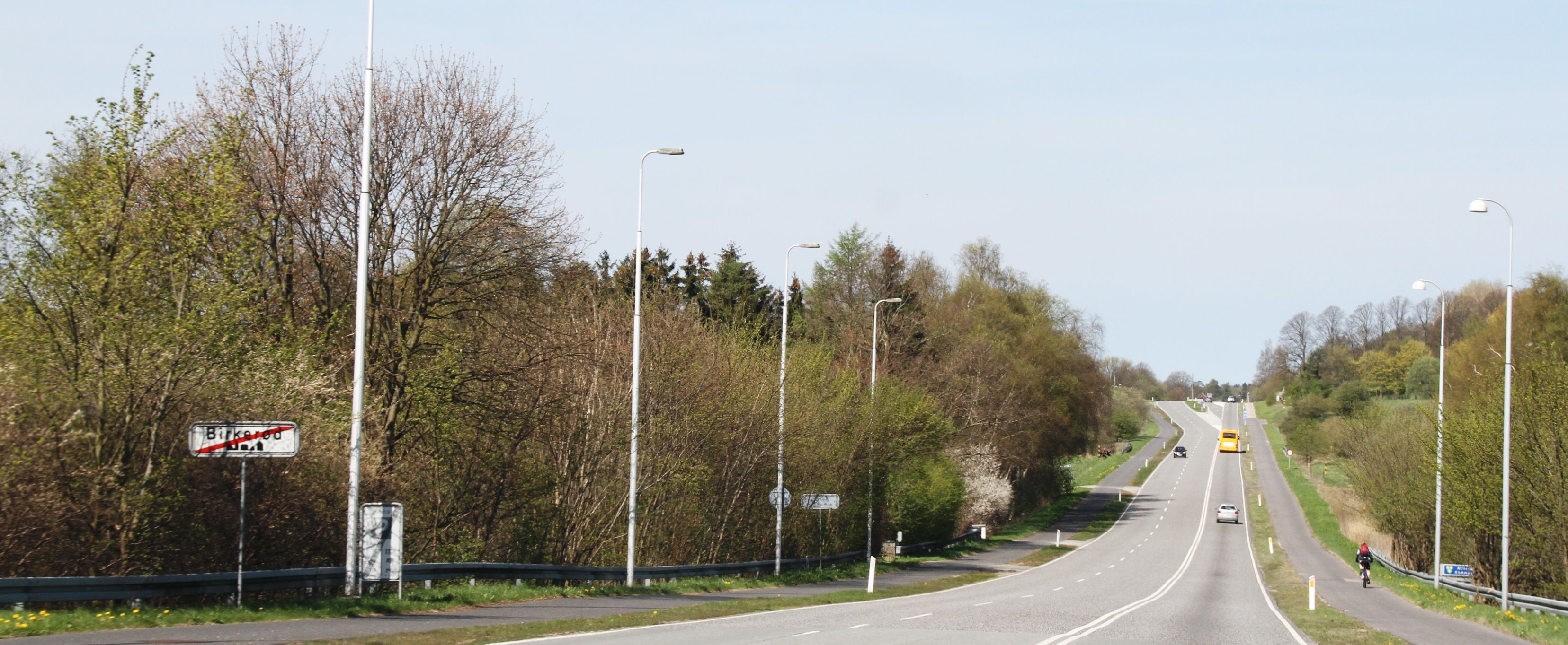 This is the Birkerød Kongevej (Birkerød King Road) in the municipality of Birkerød in eastern Sjælland, north of Copenhagen (Denmark).